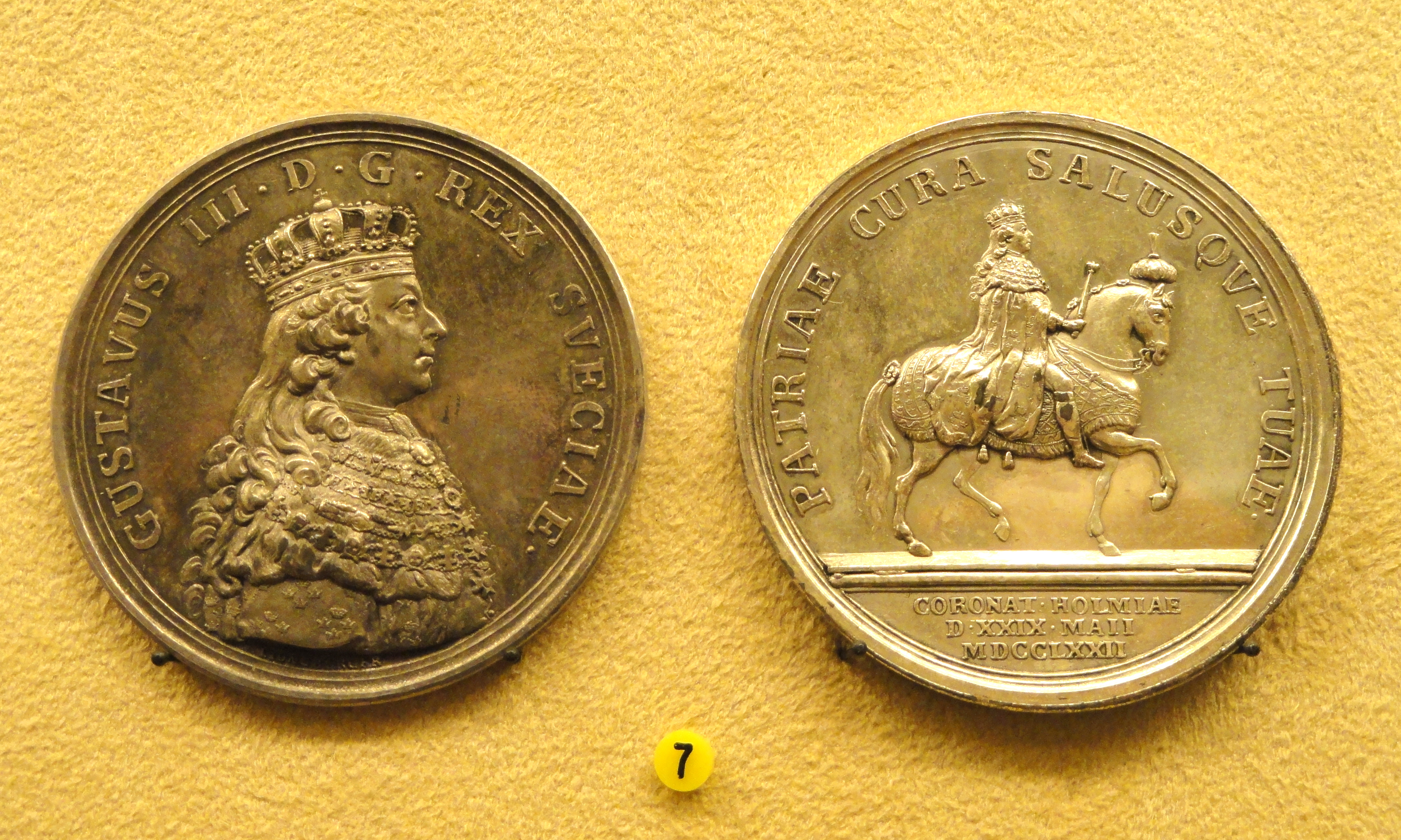 Coin / medal in the National Museum of Finland, Helsinki, Finland. This artwork is in the public domain because the artist(s) died more than 70 years ago.